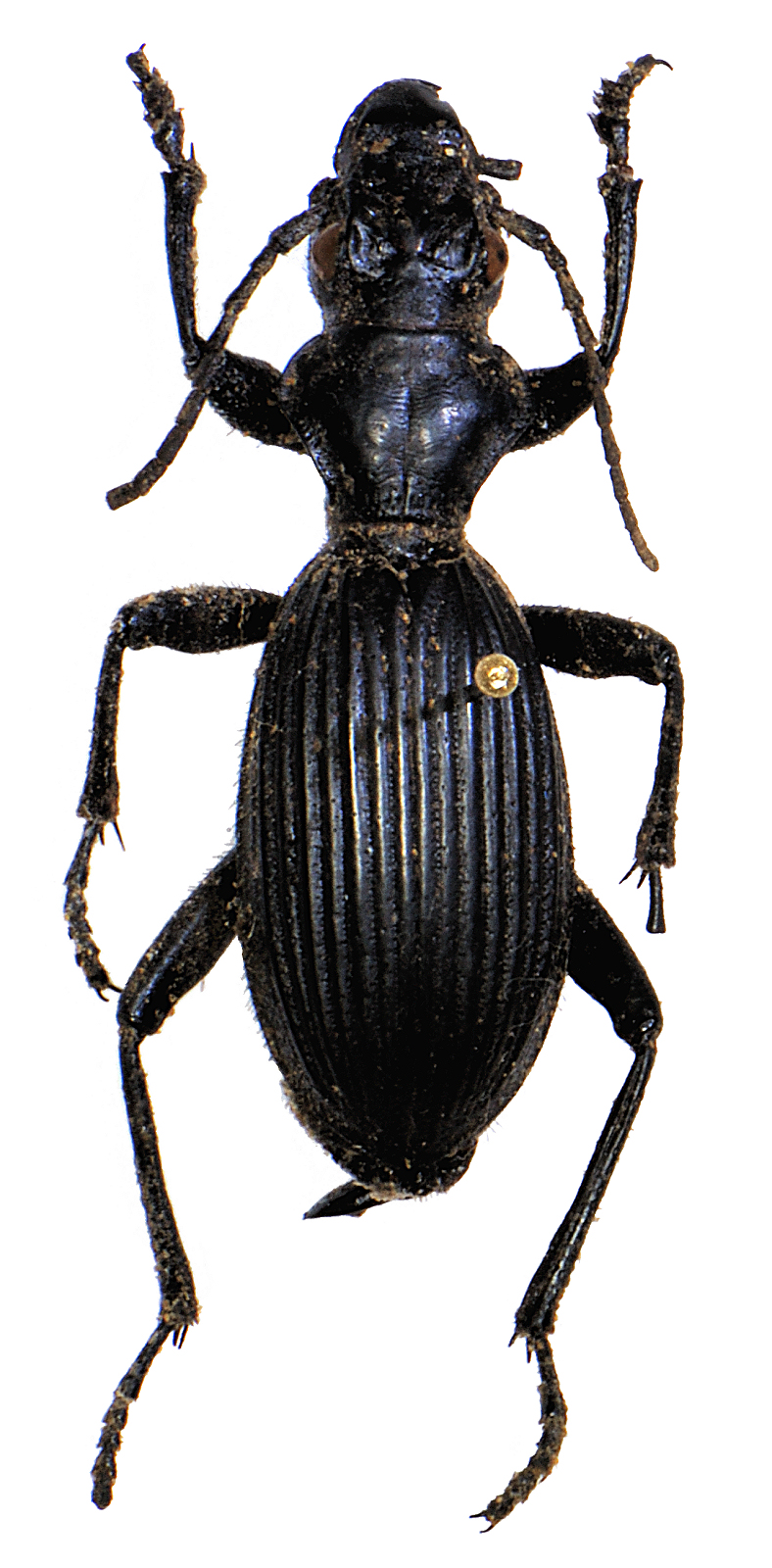 A large African carabid beetle, Tefflus zebulianus reichardi Kolbe, 1886, collected in the Congo: Shaba, Sep. 1985.